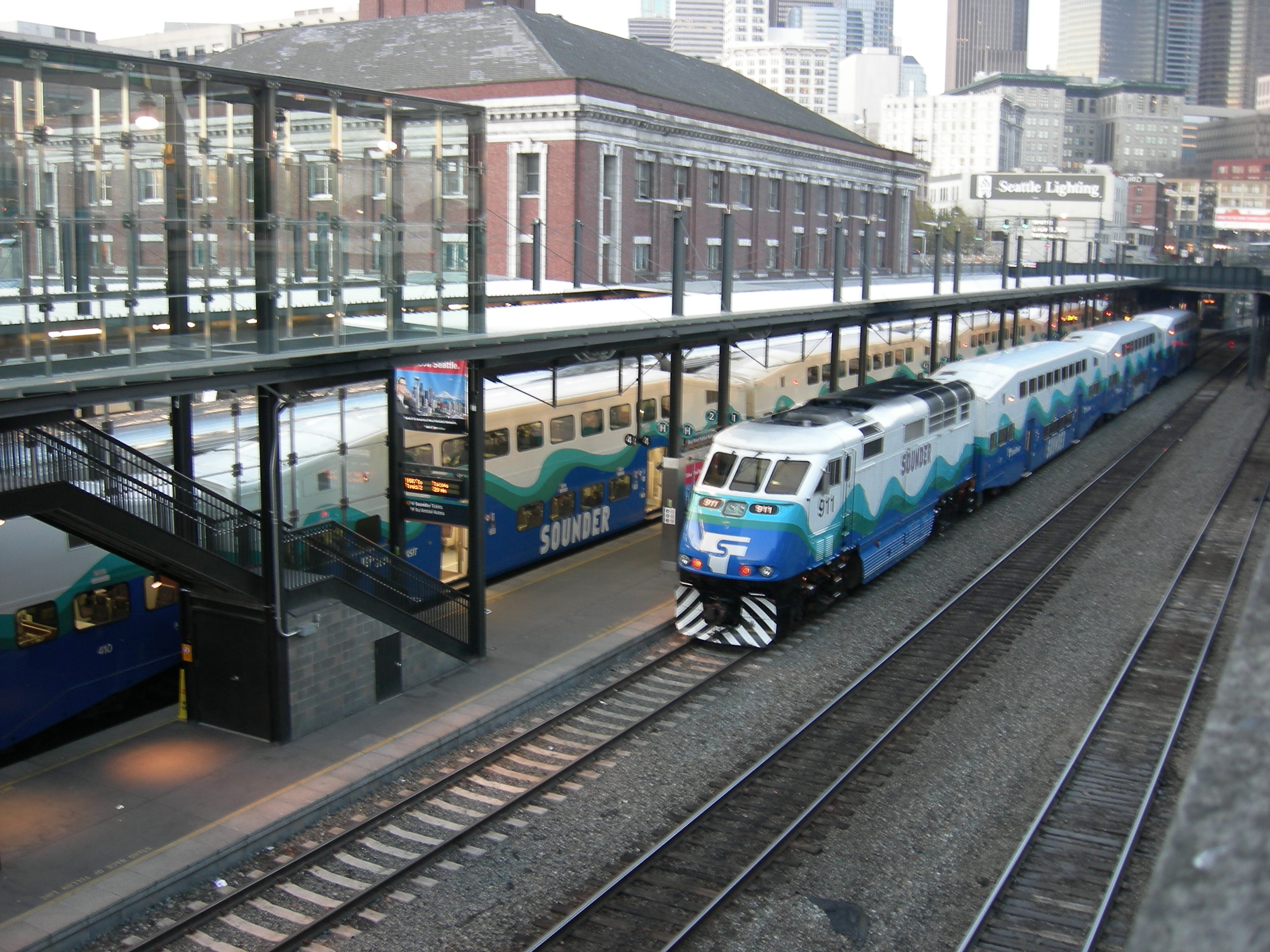 Sounder Commuter Rail at King Street Station, Seattle, Washington.